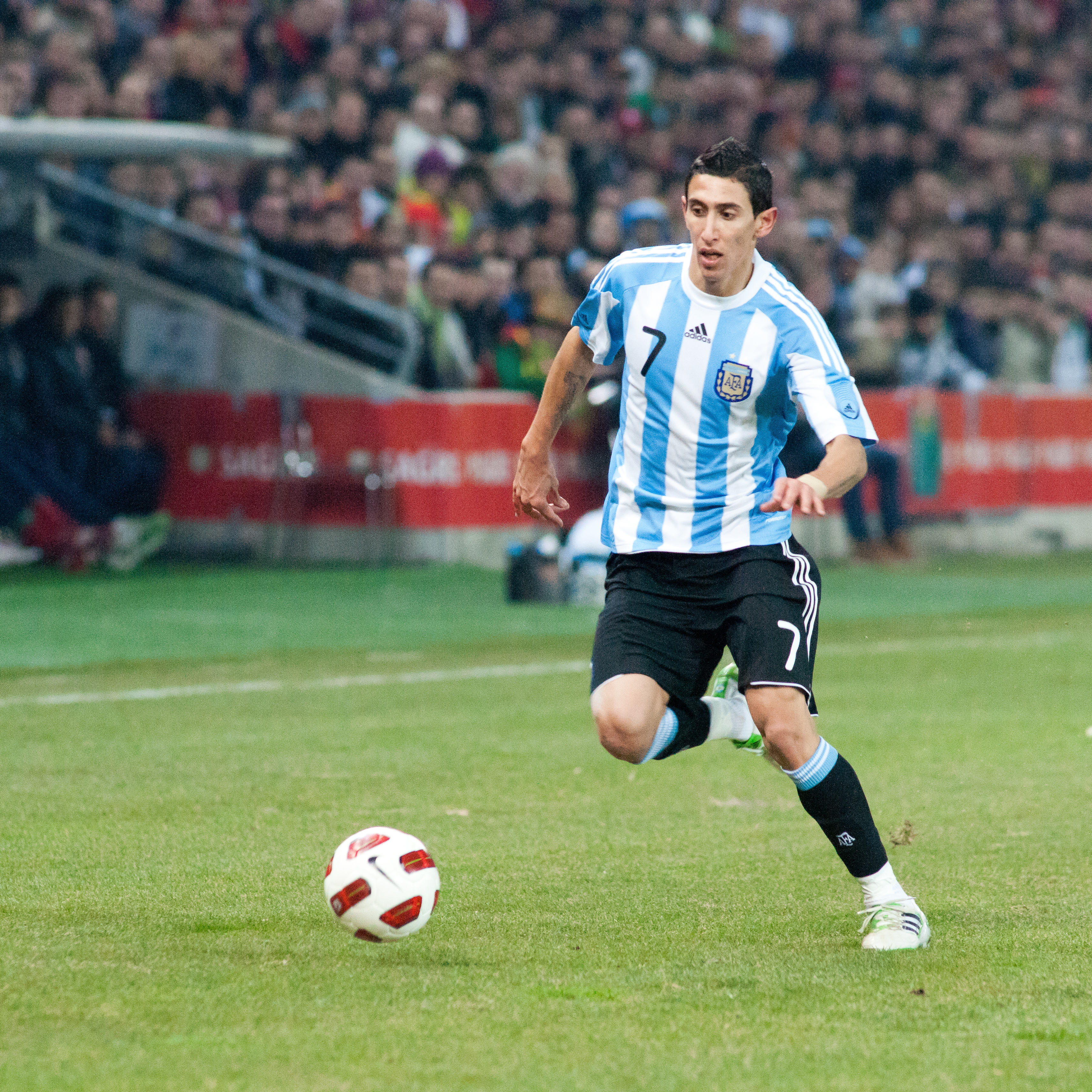 The making of this document was supported by Wikimedia CH. (Submit your project!) For all the files concerned, please see the category Supported by Wikimedia CH. Portugal vs. Argentina, 9th February 2011